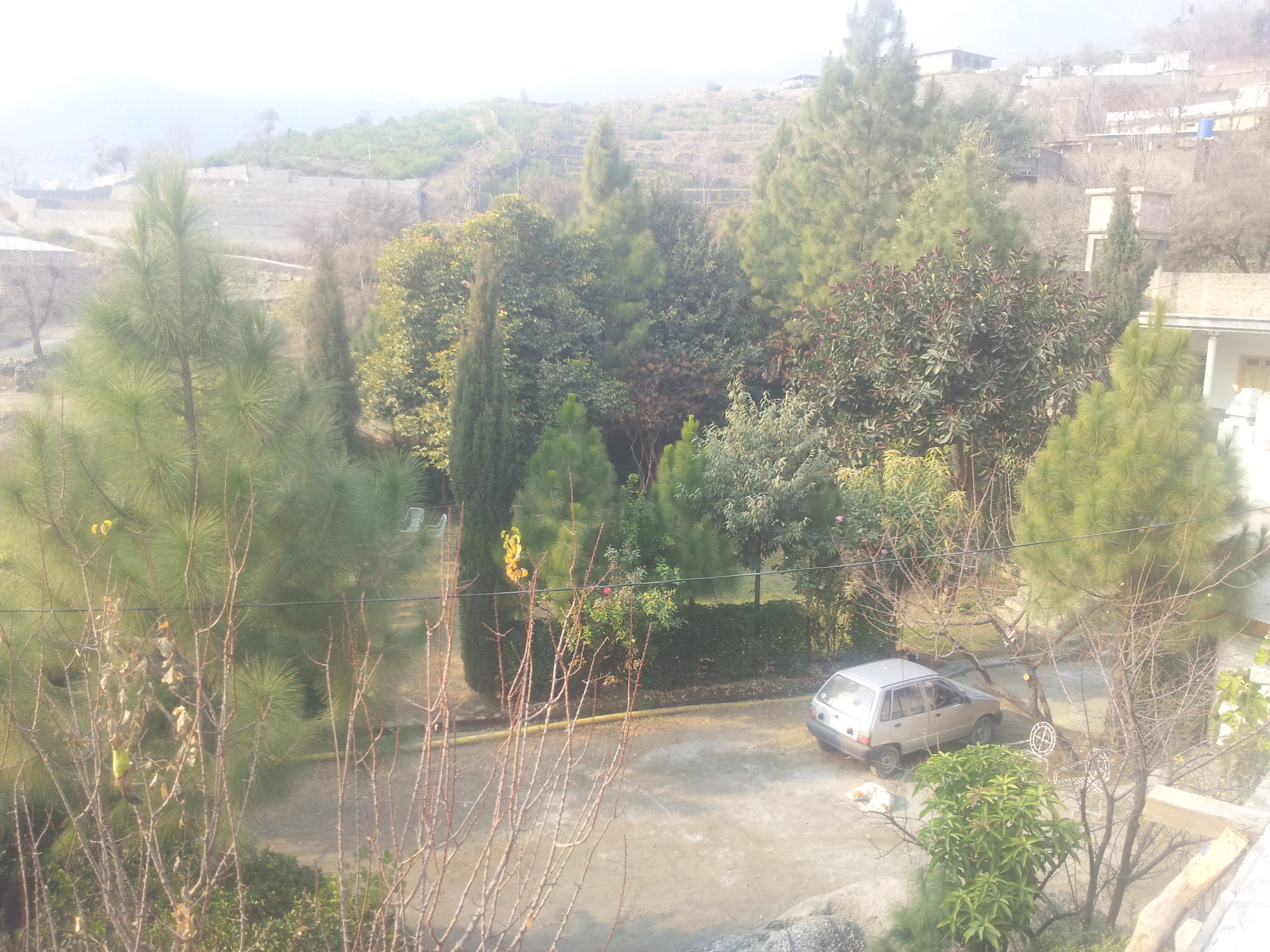 Baroon, in Lower Dir District, KPK, Pakistan